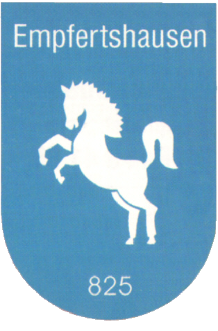 The coat of arms from Empfertshausen village.